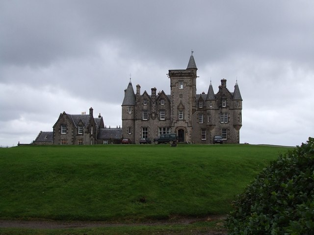 Glengorm Castle also known as Castle Sorn